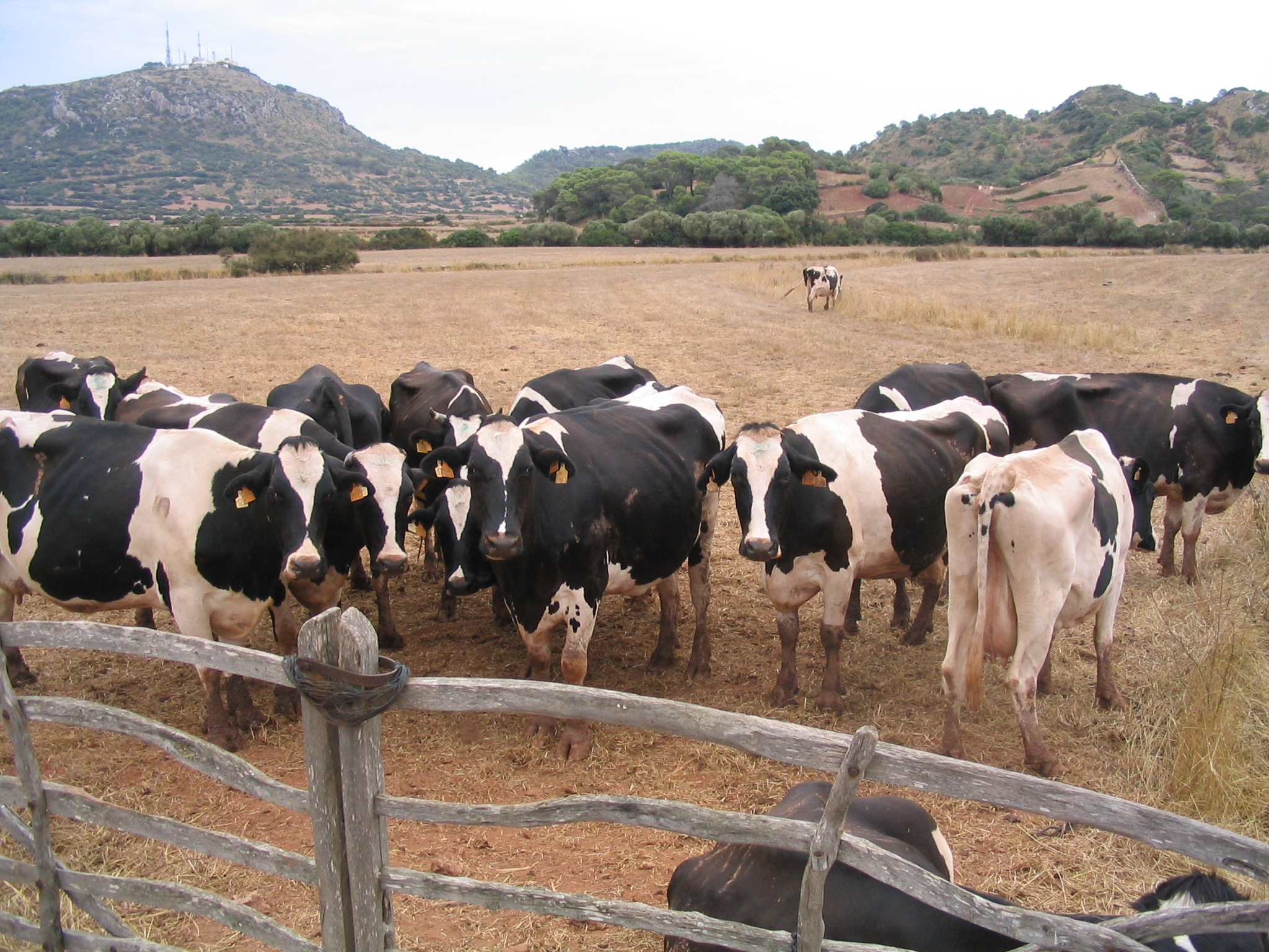 Cows in Camí d'en Kane (path of Kane), Menorca. See El Toro mountain at the left